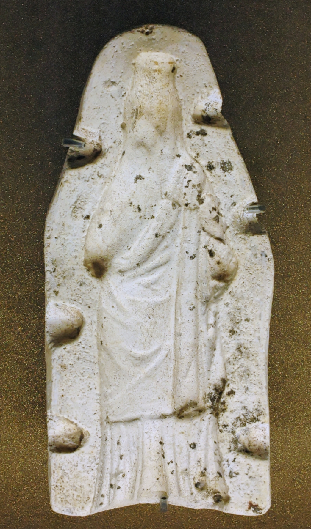 Casting mold for the back side of a terracotta Demeter/Isis figurine. Plaster, Alexandria (?), ca. 300 BC.